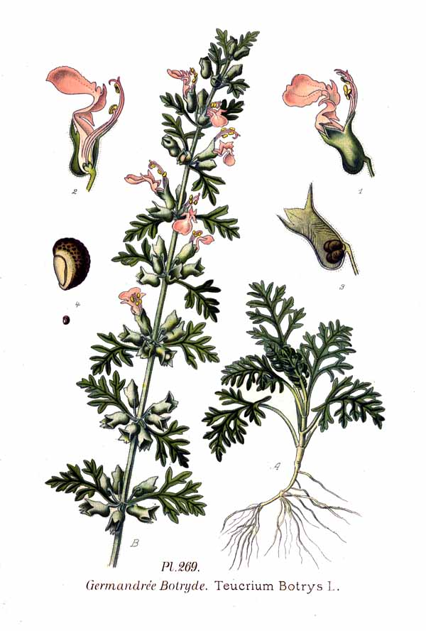 Teucrium botrys L.